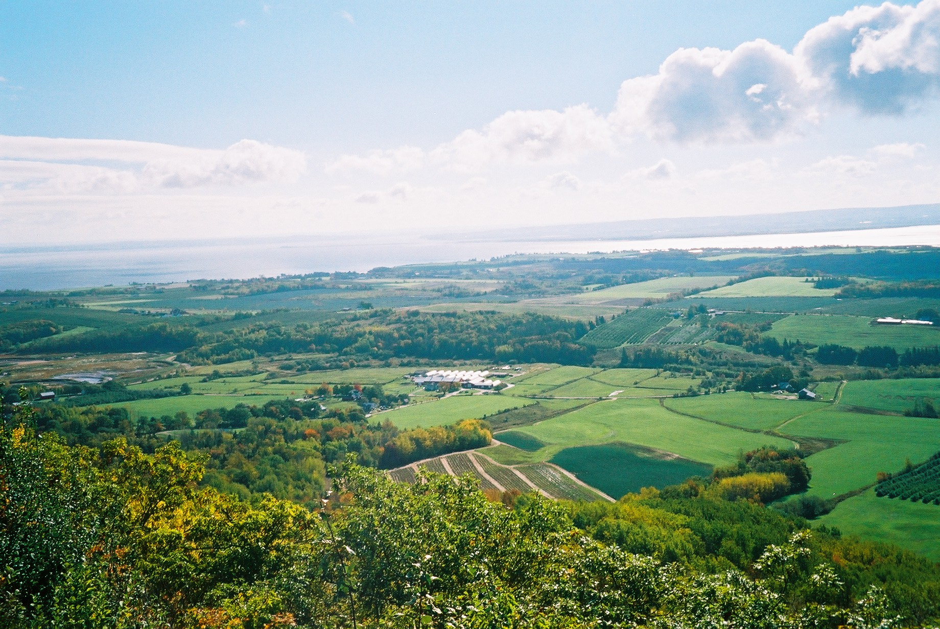 Description:Minas Basin and Annapolis Valley from Look-off on North Mountain, Nova Scotia Source: Own work Date: 10 Oct. 2005